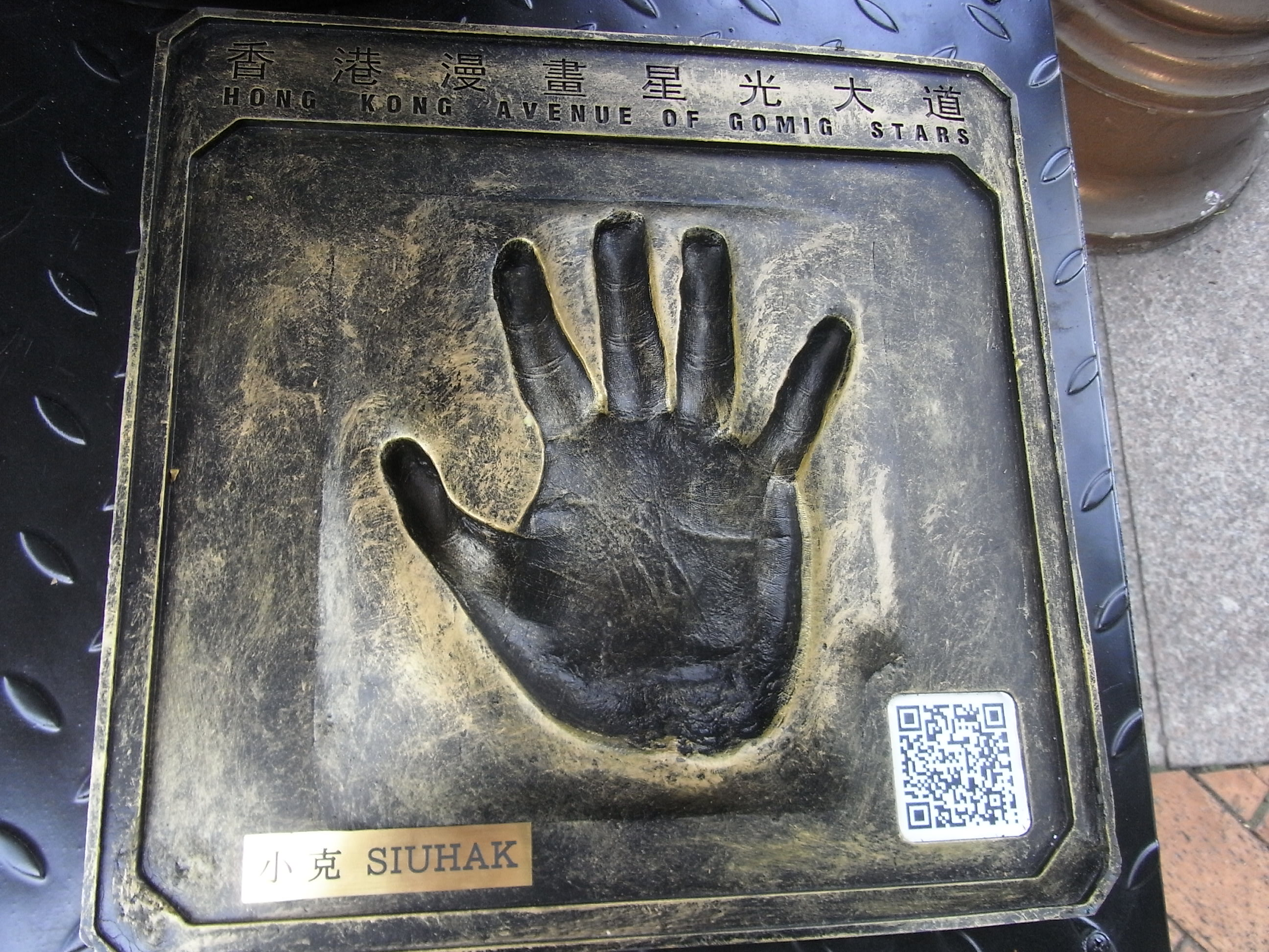 香港漫畫星光大道 蔣子軒, Hong Kong Avenue of Comic Stars, Kowloon Park, Nathan Road, Tsim Sha Tsui, Hong Kong